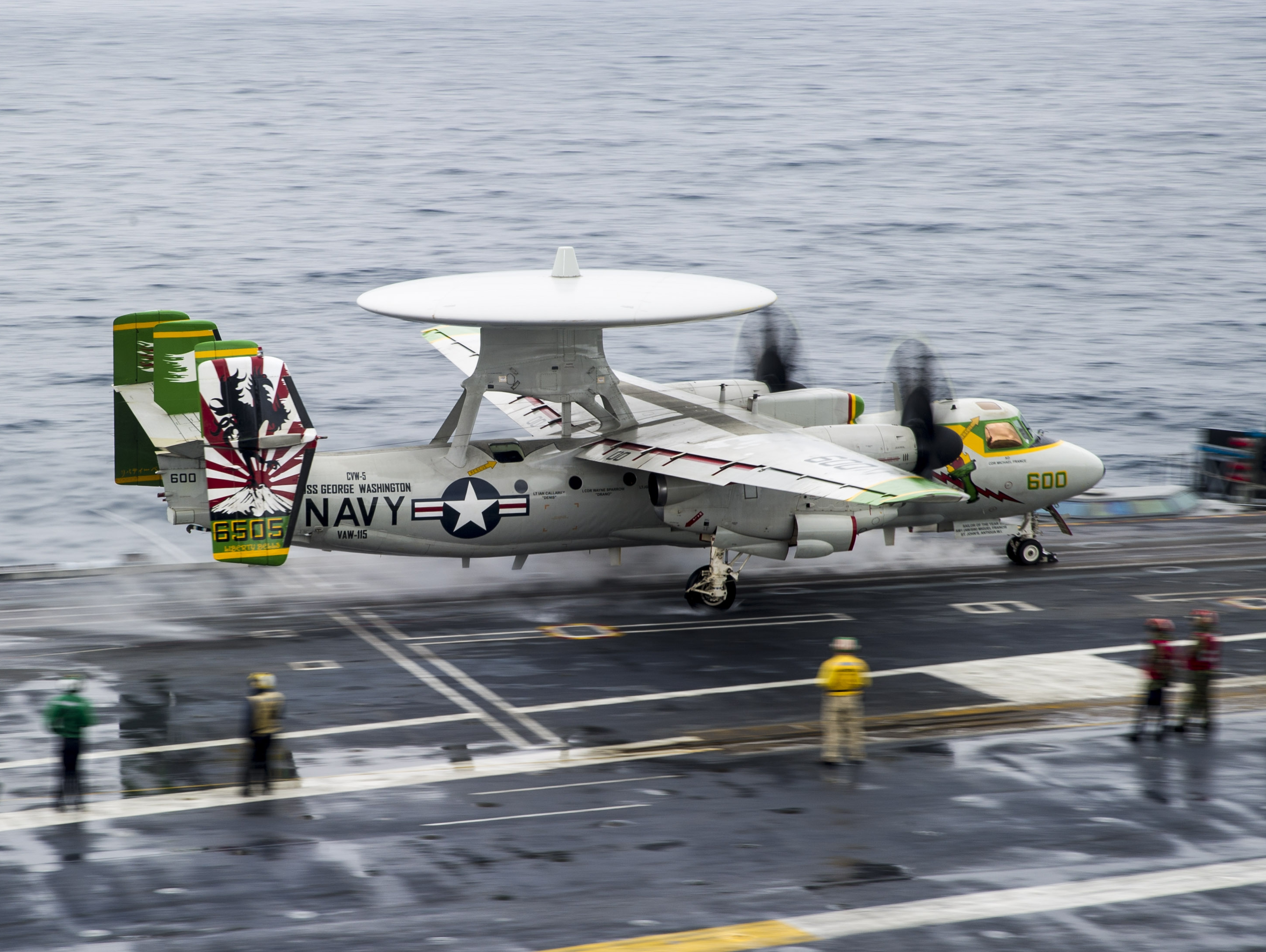 A Northrop Grumman E-2C Hawkeye (BuNo 166505) from Airborne Early Warning Squadron (VAW) 115 "Liberty Bells" launches from the flight deck of the U.S. Navy's forward-deployed aircraft carrier USS George Washington (CVN-73) in the waters west of the Korean peninsula.